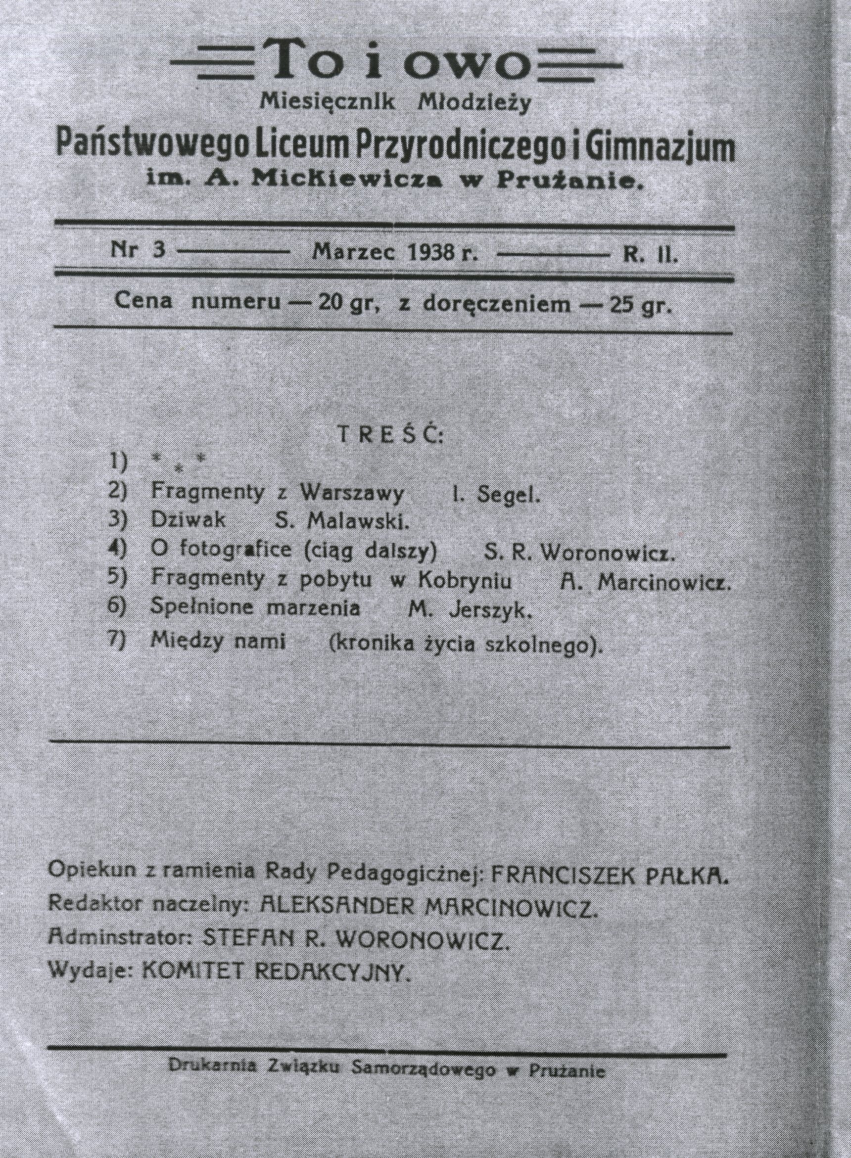 The title page of Polish school newspaper from Prużana (Polesie District).